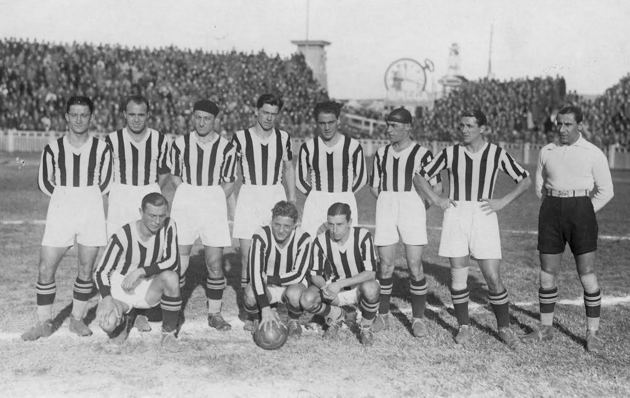 A line-up of F.B.C. Juventus in the 1930–31 season, posing inside the Campo Juventus ("Juventus Ground") in Turin, Italy.